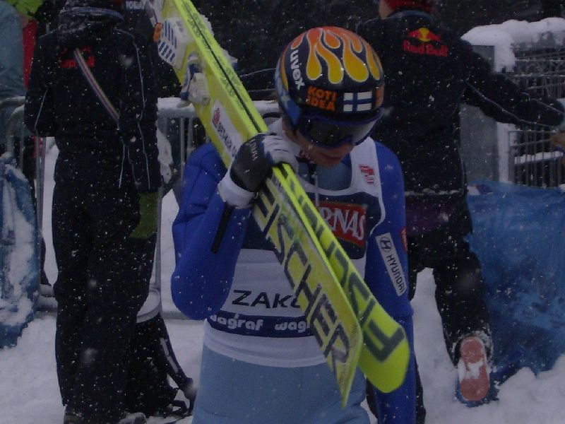 ski jumper Jussi Hautamaeki from Finland during the World Cup in Zakopane on 27-1-2008